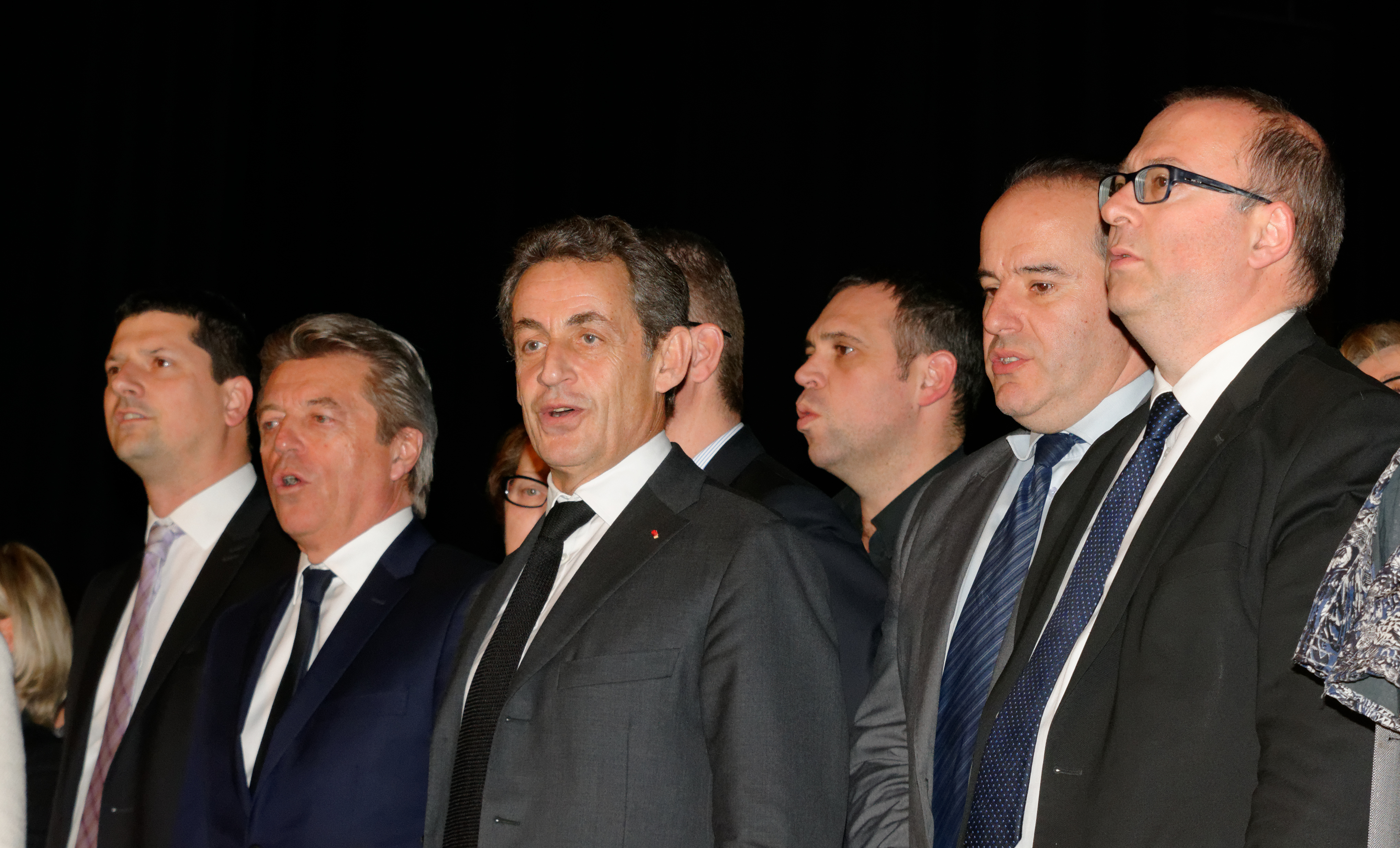 Personality rights warningAlthough this work is freely licensed or in the public domain, the person(s) shown may have rights that legally restrict certain re-uses unless those depicted consent to such uses. In these cases, a model release or other evidence of consent could protect you from infringement claims.